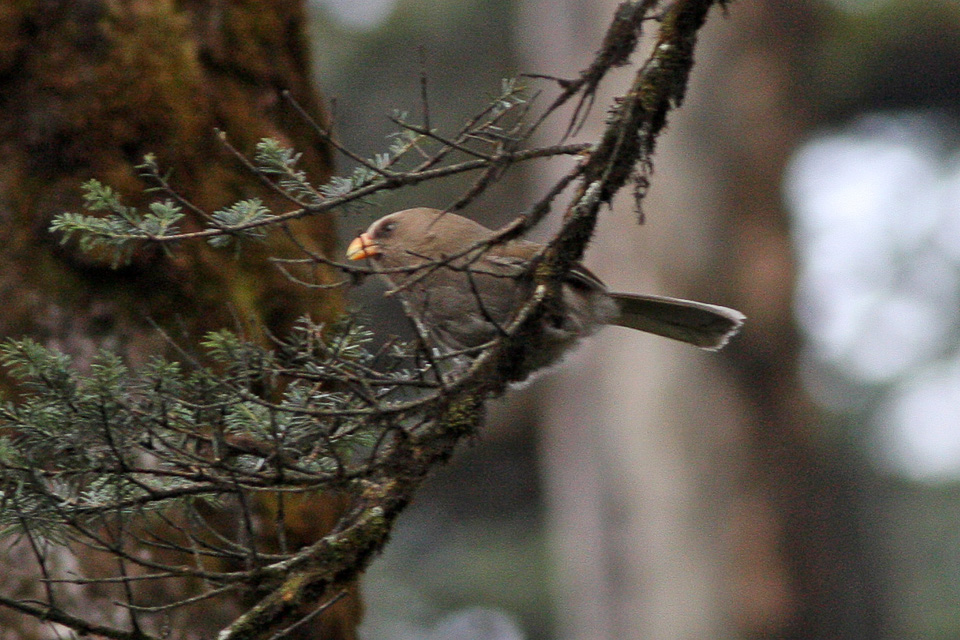 Great Parrotbill (Conostoma oemodium) at Wawu Shan, Sichuan